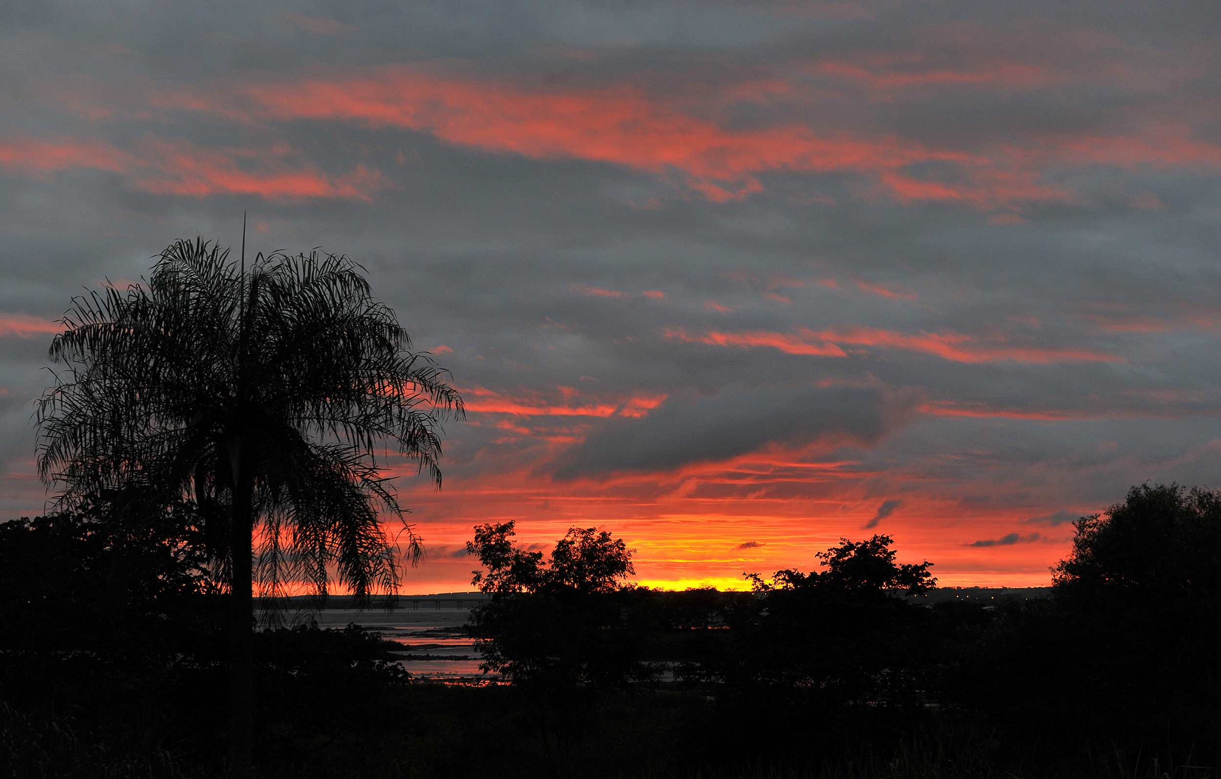 This is an image of the Biosphere Reserve or a Geopark: The Bosque Mbaracayú Biosphere Reserve